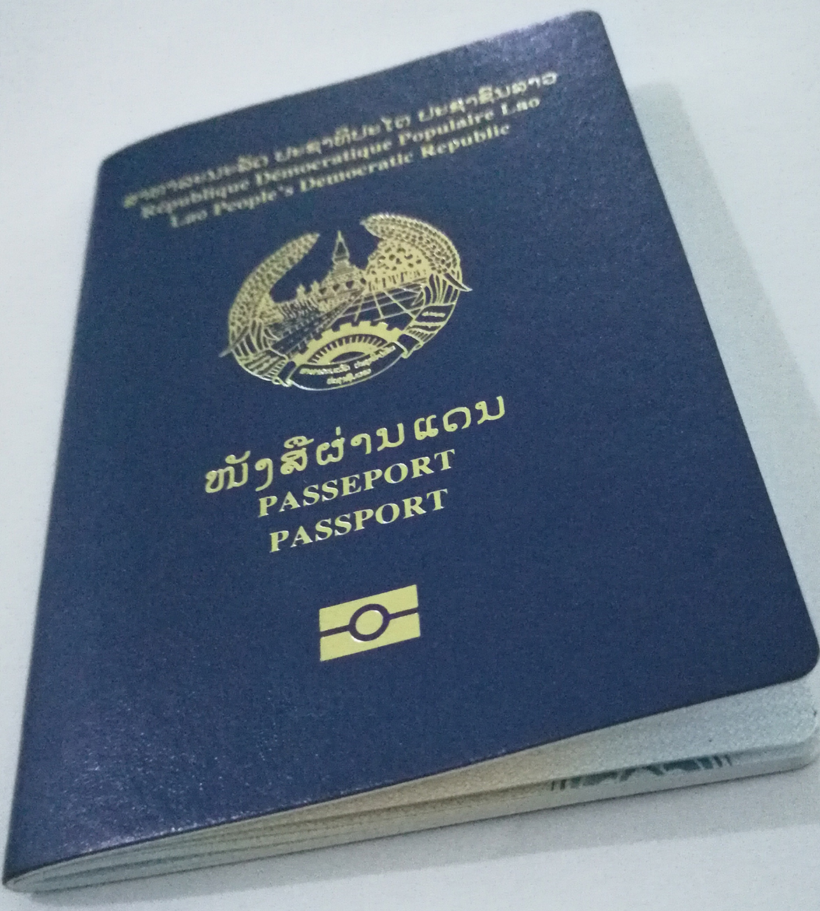 Cover Laos passport